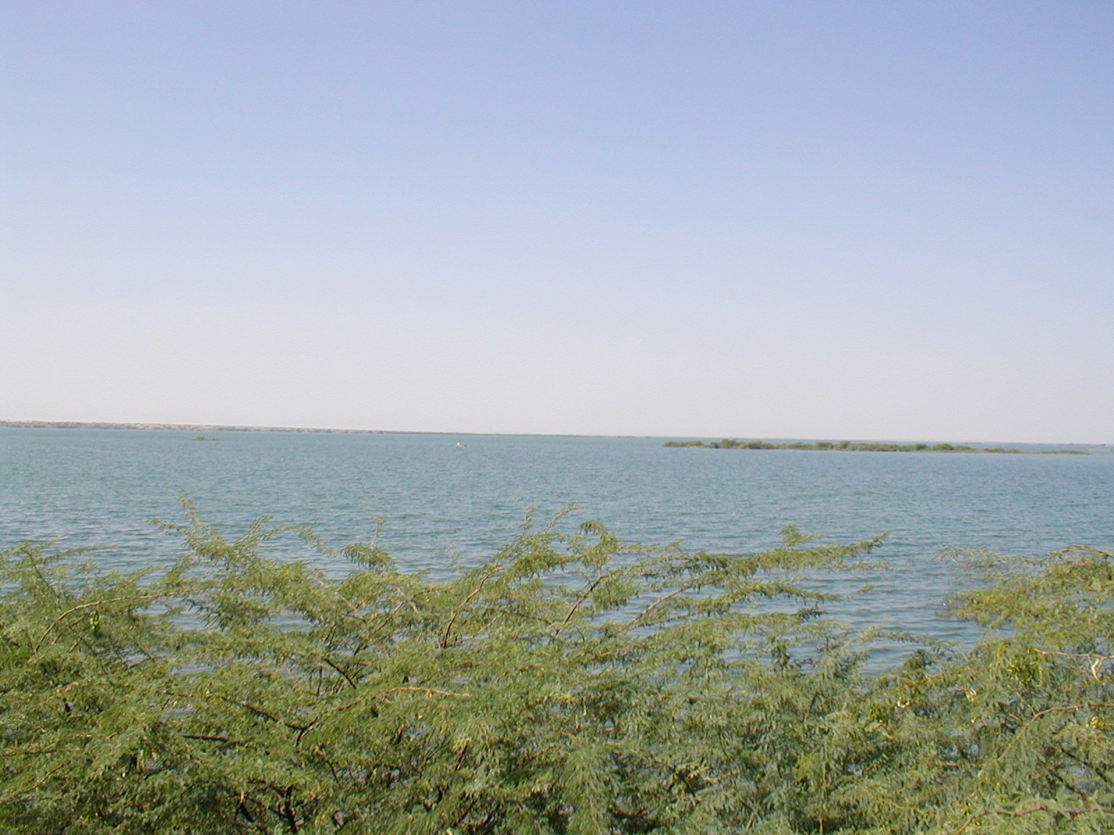 Keenjhar Lake